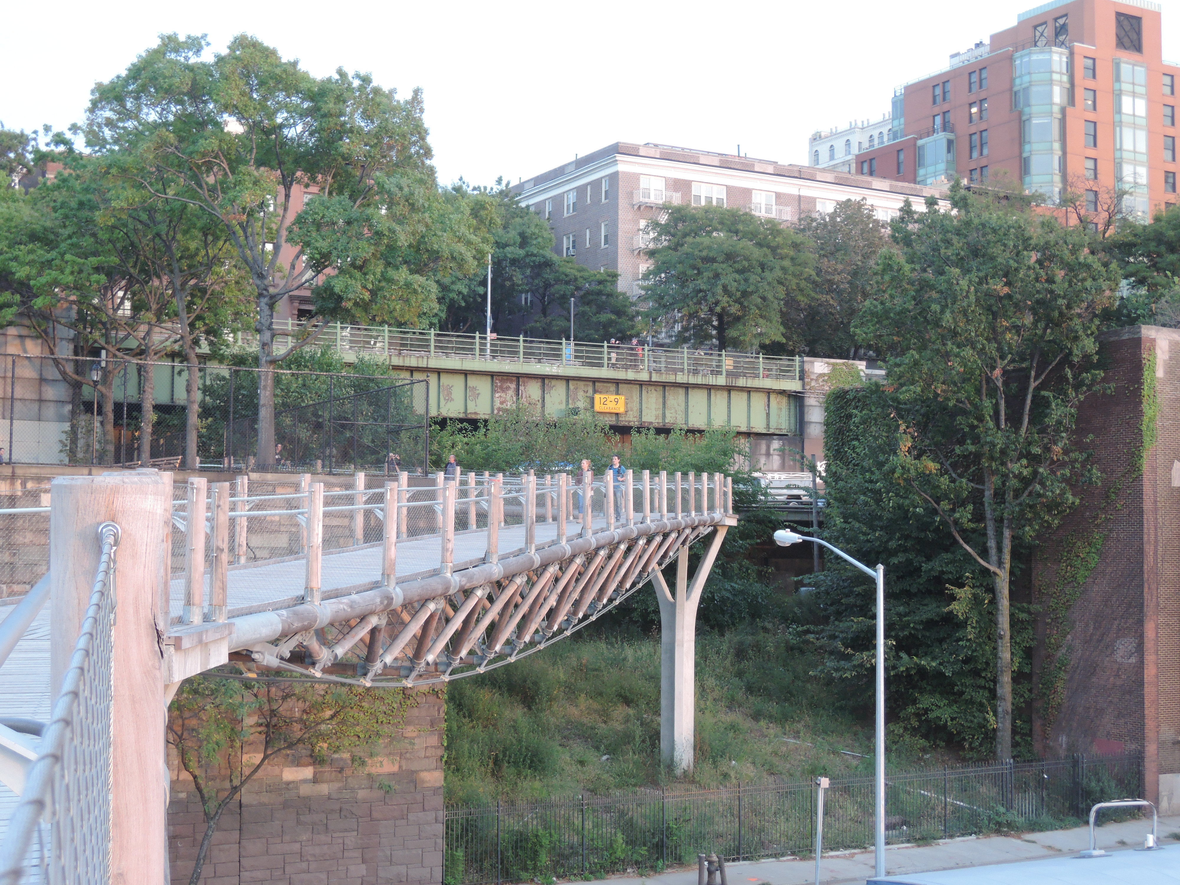 Looking southeast at inverted suspension bridge shortly before sunset.